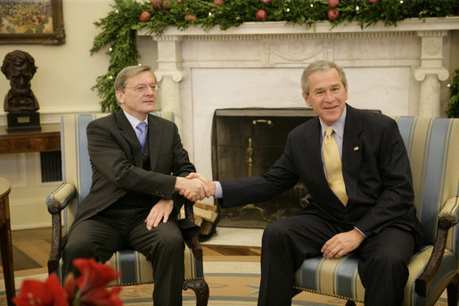 President George W. Bush and Austria Chancellor Wolfgang Schuessel exchange handshakes during the Chancellor's visit Thursday, Dec. 8, 2005, to the White House.